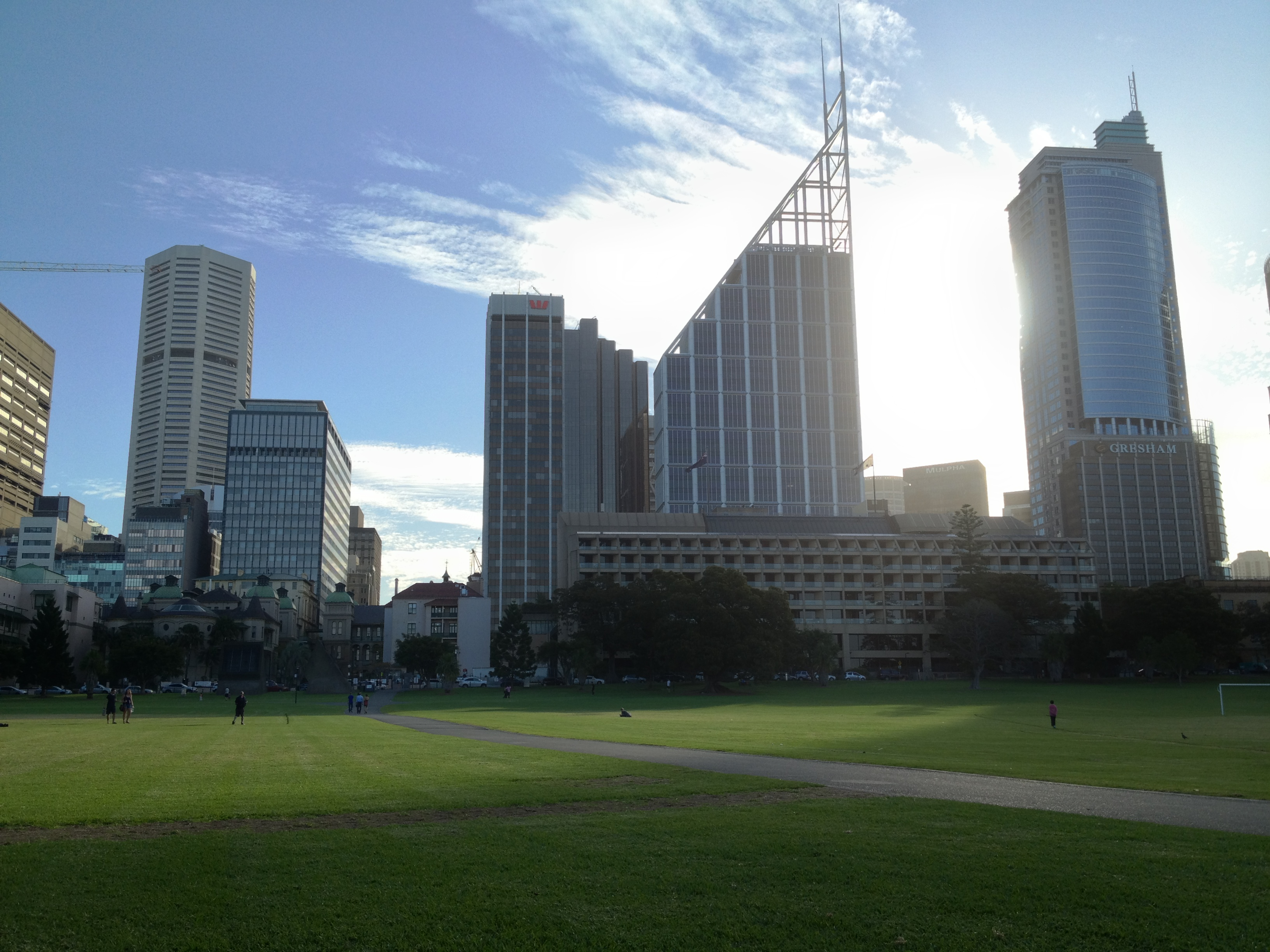 View of the Deutsche Bank building from The Domain park in Sydney, Australia.